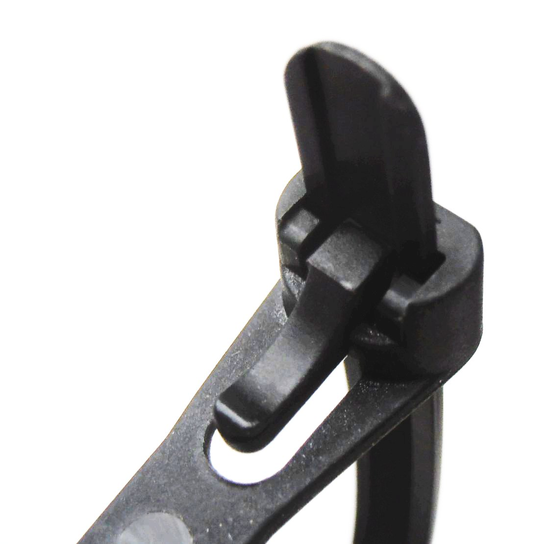 This cable tie can be relased and reused.